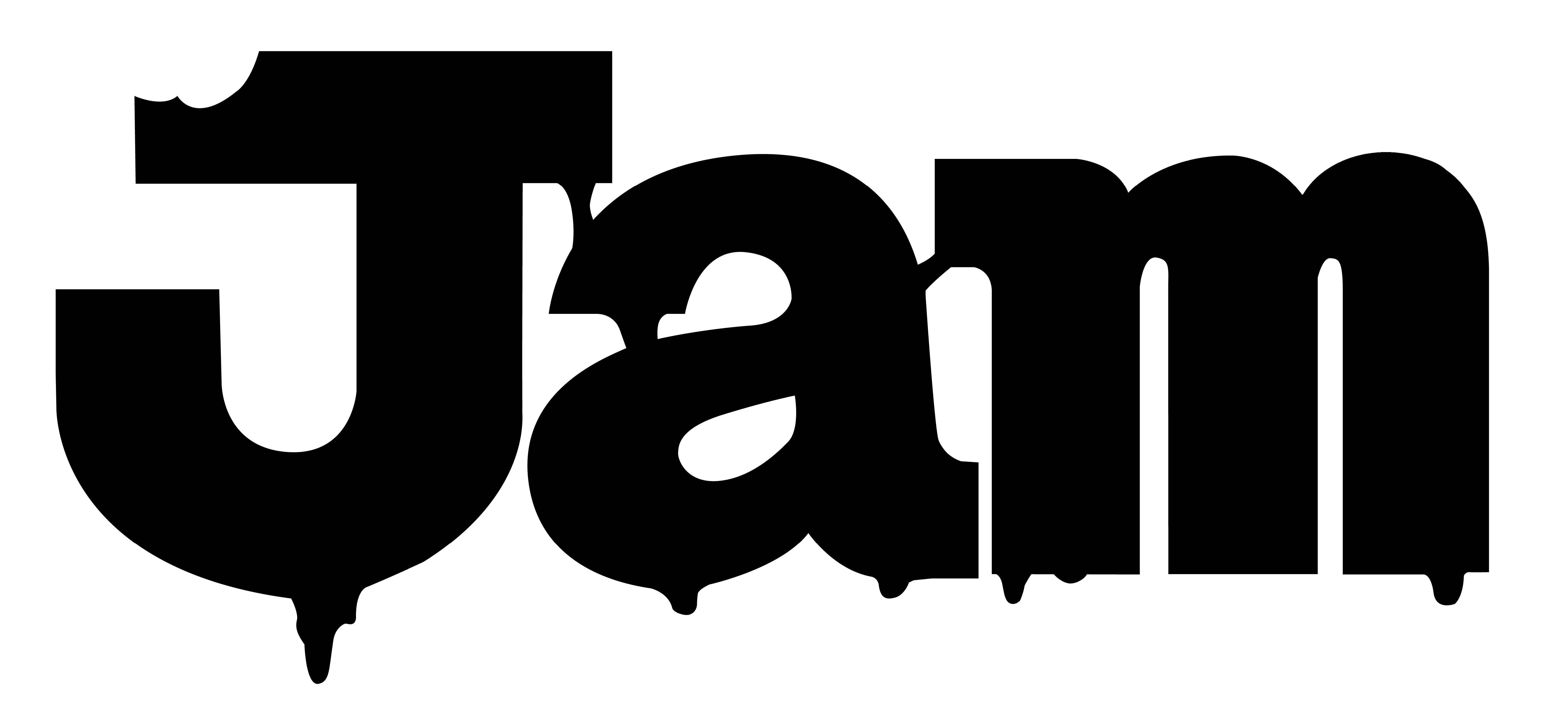 logo, created in Adobe Illustrator.